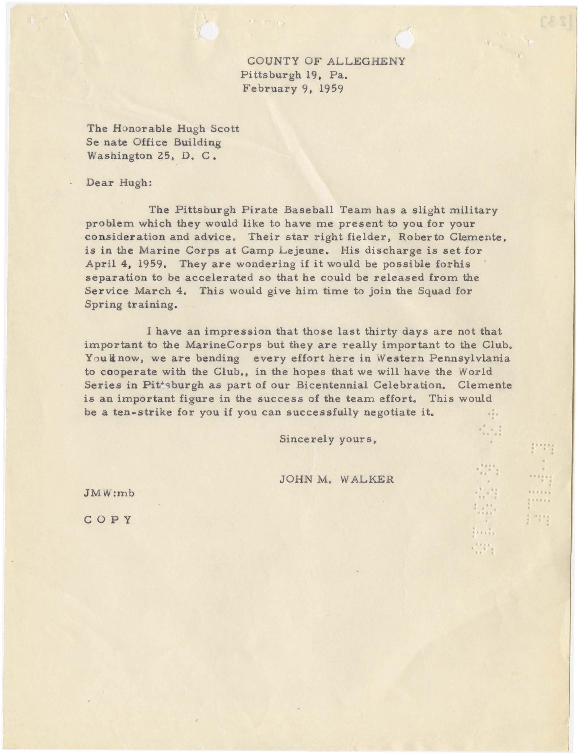 This is a letter from former State Senator John M. Walker to United States Senator Hugh Scott, requesting assistance in getting an early release for Roberto Clemente Walker for the 1959 baseball season.